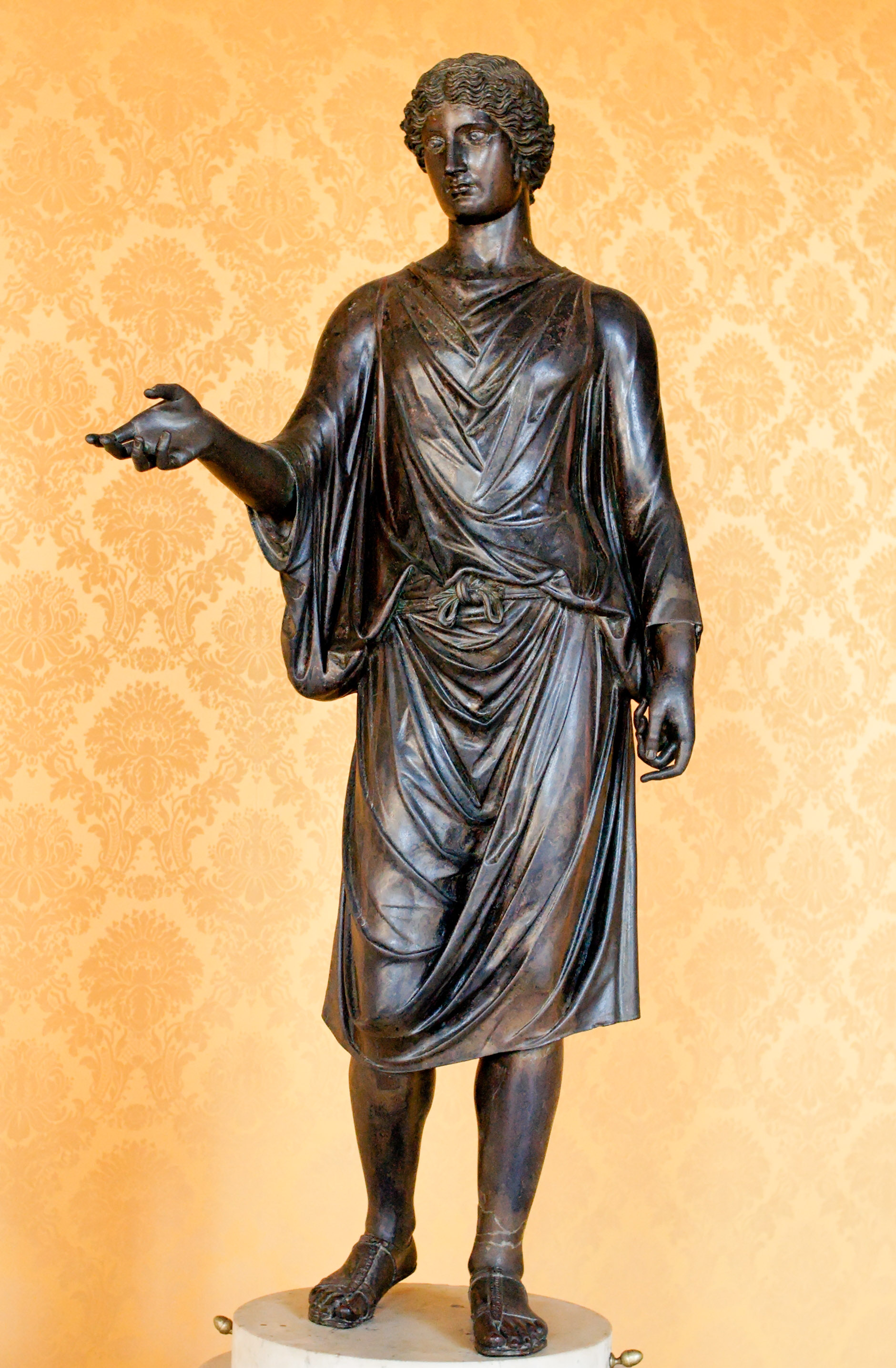 Statue of a camillus (young cult officiant), also known as the “Zingara” (“Gipsy”). Roman artwork.